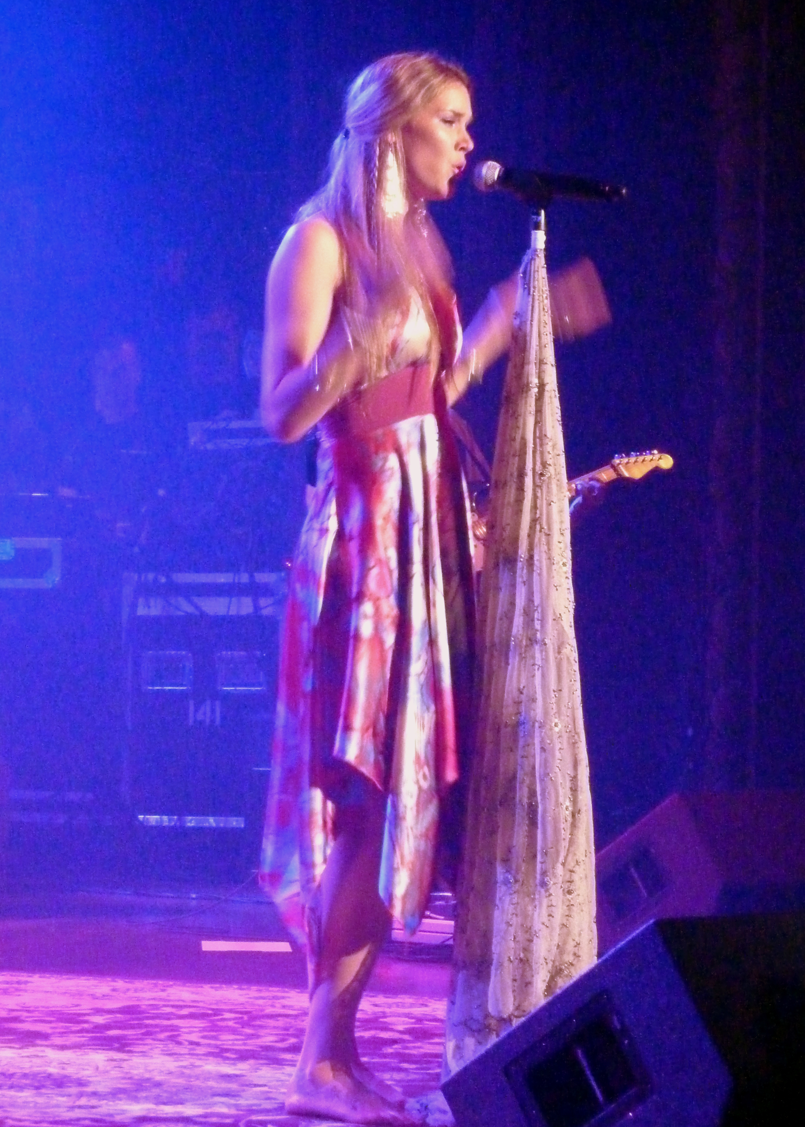 Joss Stone at the Royal Oak Music Theater, Detroit 10/6/12